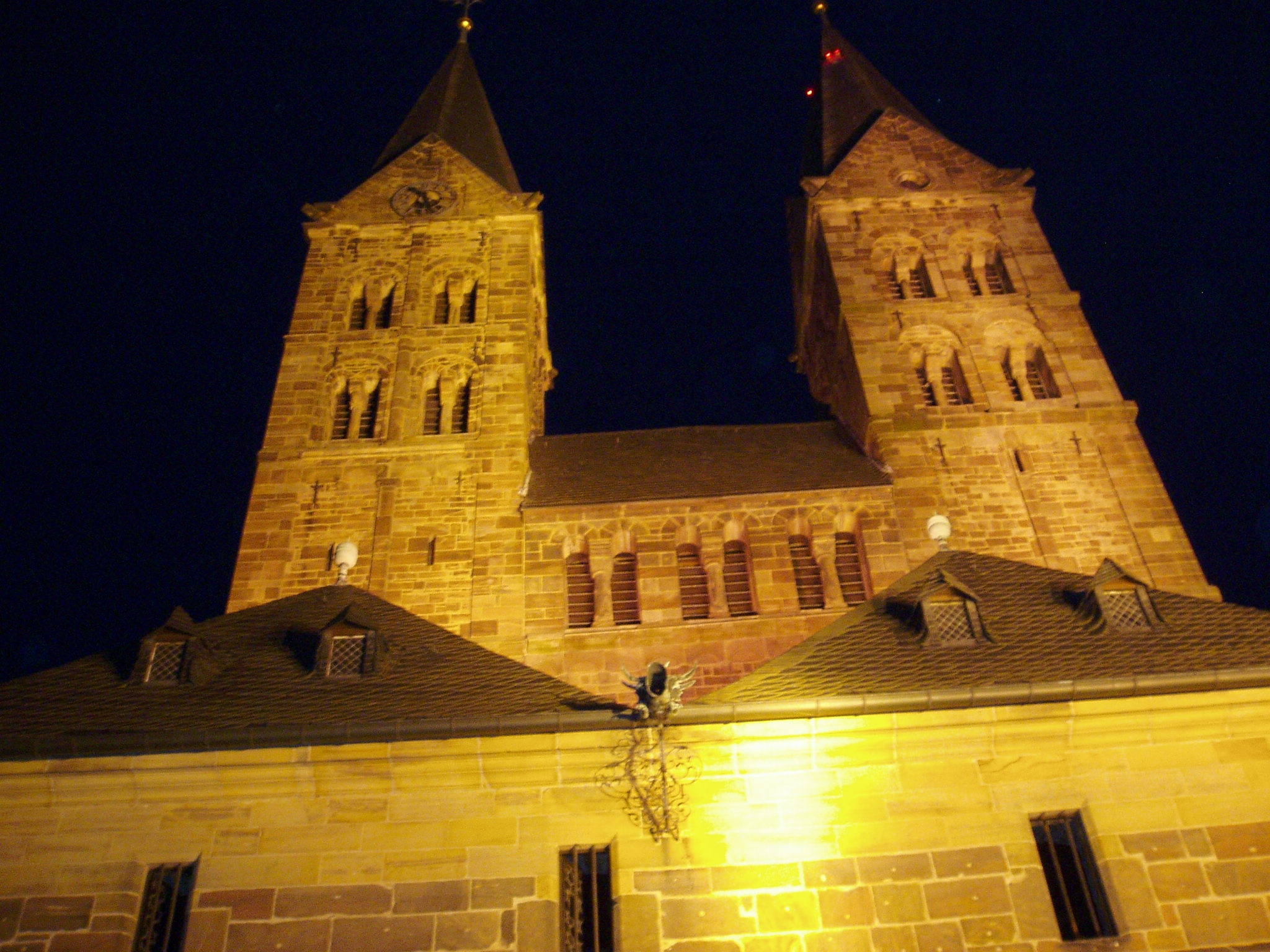 The Fritzlar Dom.